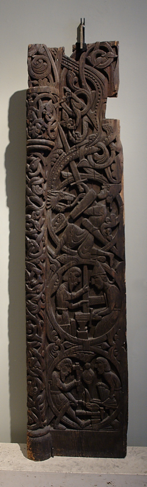 The right portal plank from Hylestad stave church, the so called "Hylestad I"